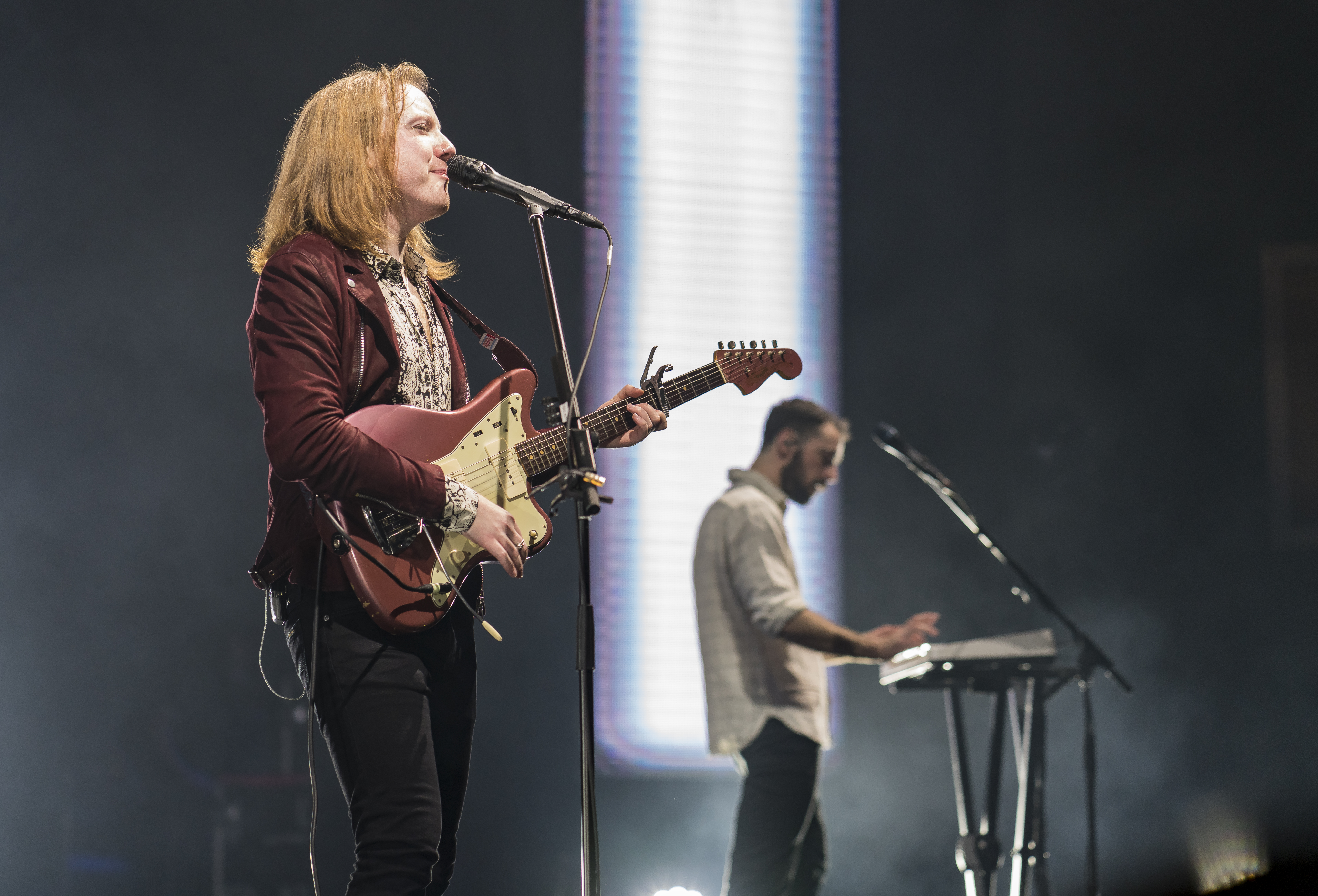 alex trimble kevin baird two door cinema club 2017 singapore star vista